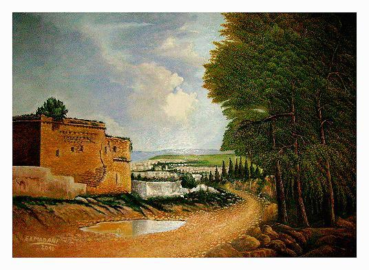 Taza Bastione Oil on Canvas 70x50cm 2010 signed Elmadani